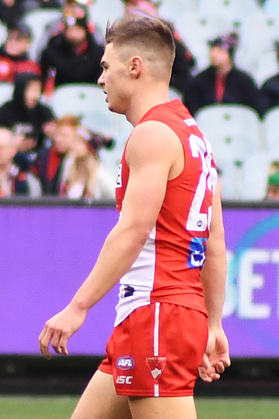 Ben Ronke of Sydney during the 2018 AFL round 21 match between Melbourne and Sydney at the Melbourne Cricket Ground on Sunday, 12 August 2018 in Melbourne, Victoria.